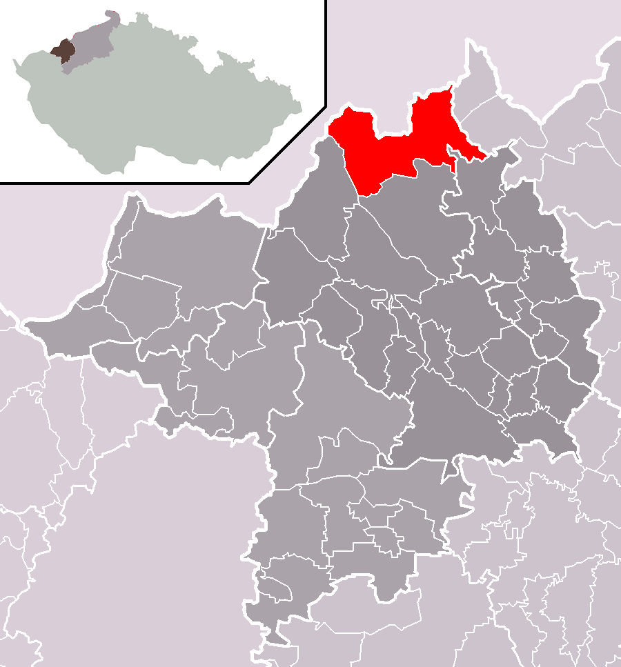 Location of Kalek municipality within Chomutov District and administrative area of Chomutov as a Municipality with Extended Competence.